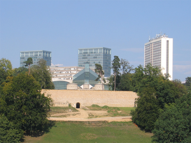 Photo of Kirchberg showing Fort Thüngen (Drei Eeschelen), Musée d'Art Moderne (MUDAM, Pei Musée), twin city gate towers and to the right the Heighaus, taken from in front of the three tower gate